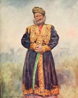 A Rajput of Rajgarh